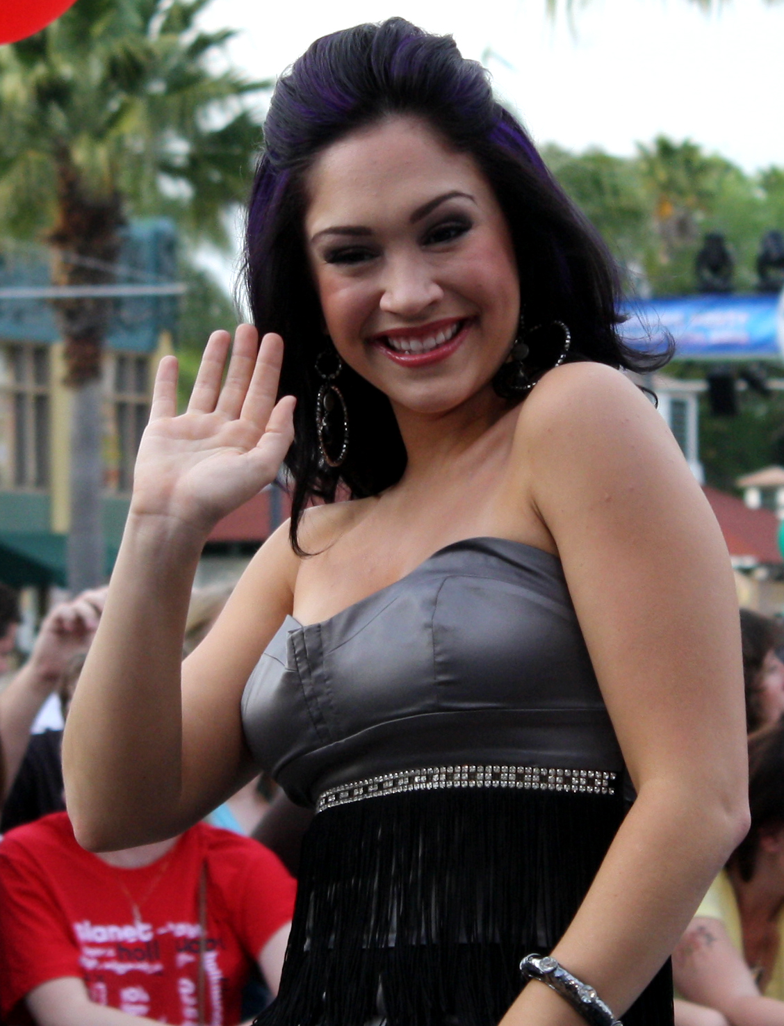 Diana DeGarmo, runner-up on the third season of American Idol.